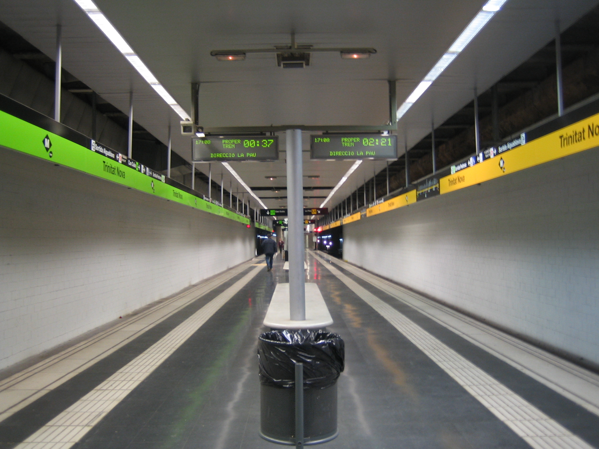 Barcelona's metro station Trinitat Nova